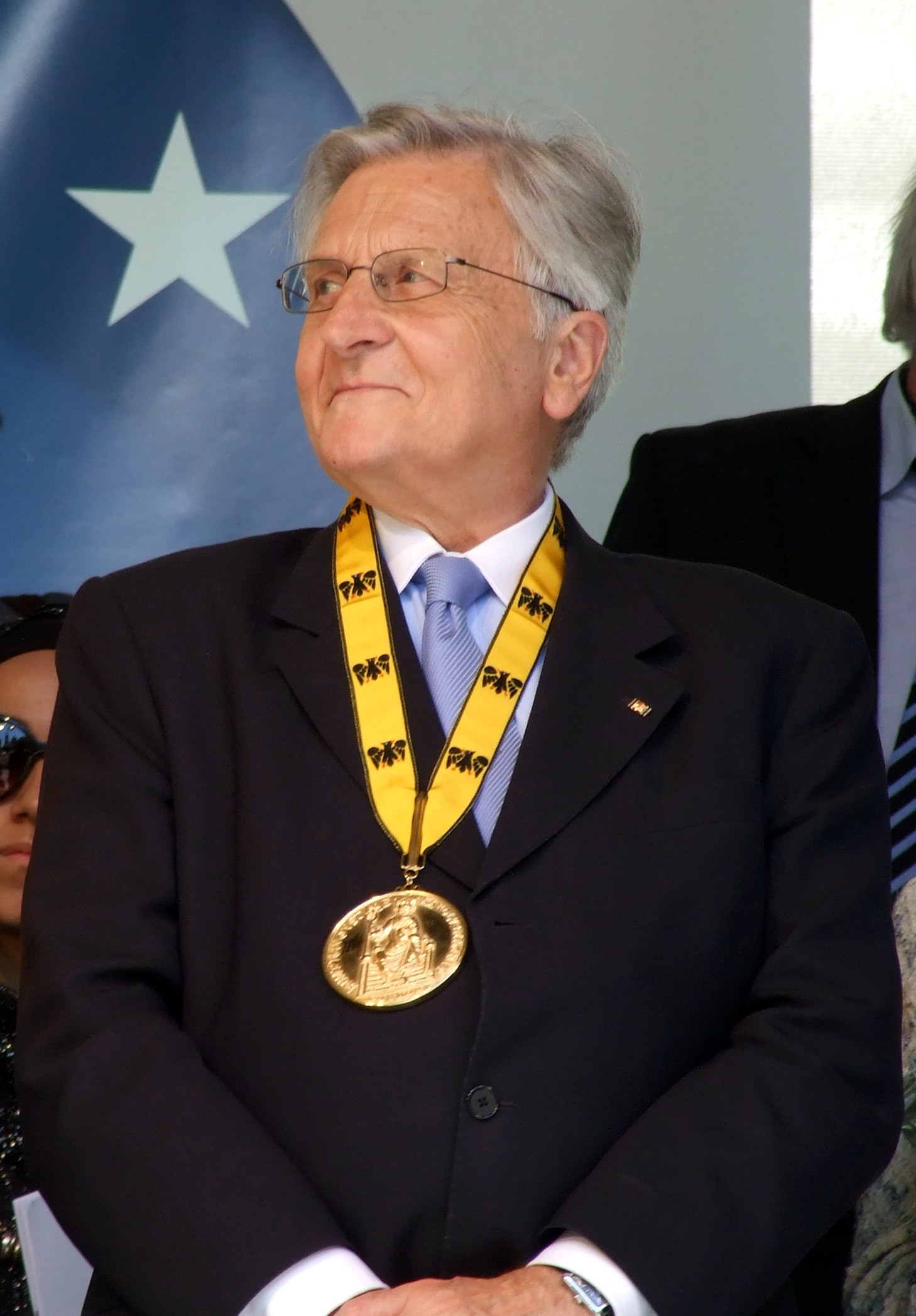 Jean-Claude Trichet at the Charlemagne Prize celebration 2011